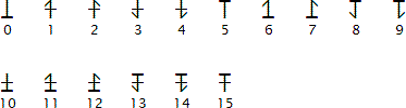 Ewellic alphabet - digits. Omniglot: Digits have a single vertical stroke. Digits 0 through 9 have one horizontal (perpendicular) stroke, while digits 10 through 15 (for hexadecimal use only) have two horizontal strokes.